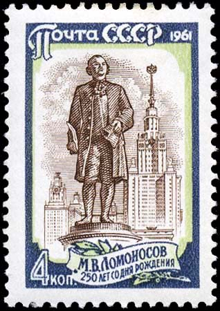 Stamp, issued by Post of the USSR on the 250th anniversary of Mikhail Lomonosov's birth.